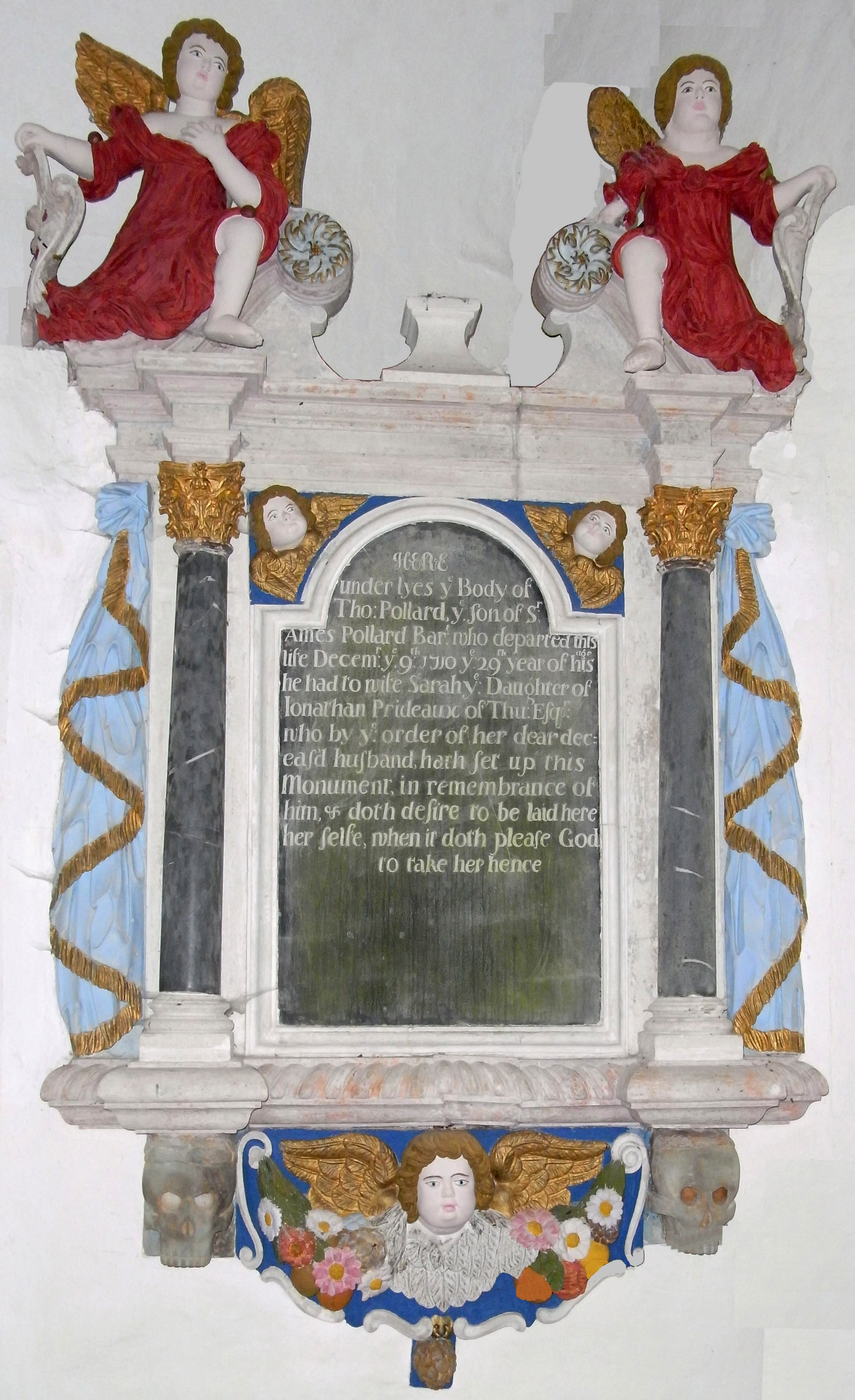 Mural monument to Thomas Pollard (d.1710), Abbots Bickingto Church, Devon. Inscribed as follows: Here under lyes ye body of Tho: Pollard ye son of Sr. Ames Pollard Bart. who departed this life Decem(be)r ye 9th 1710 ye 29th year of his age. He had to wife Sarah ye daughter of Jonathan Prideaux of Thu(borough) Esqr. who by ye order of her dear deceas'd husband hath set up this monument in remembrance of him & doth desire to be laid here her selfe when it doth please God to take her hence.